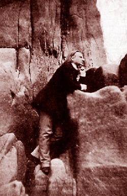 Victor Hugo in 1853